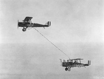 Early mid-air refueling in 1923